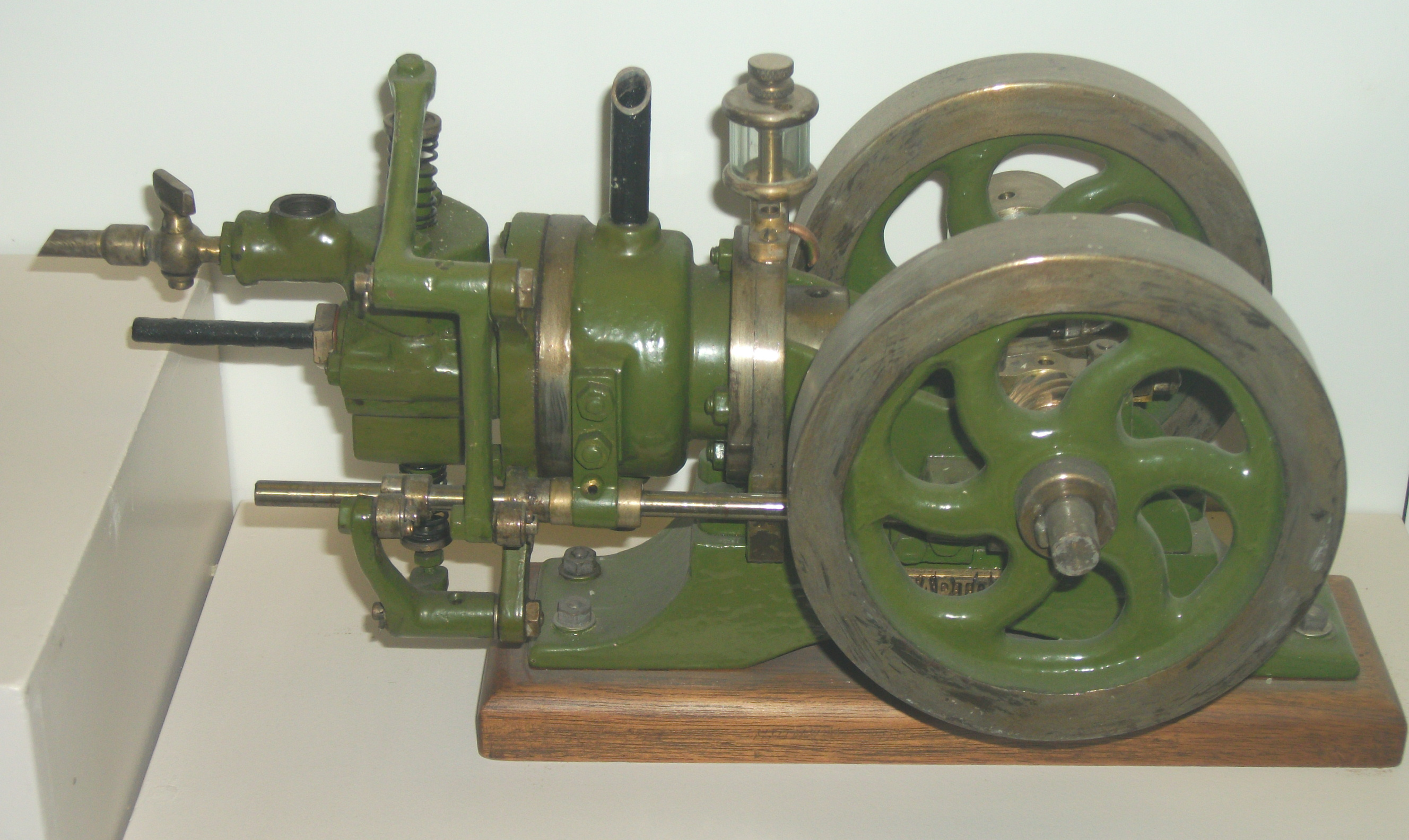 Model of an S type Hartop Gas Engine, made in 1925 by F. Hartop who presented it to Bedford Museum where it is on display.